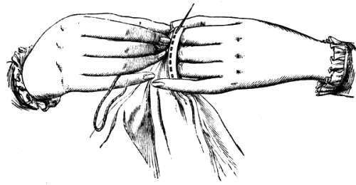 Illustration for section "Plain sewing" in Encyclopedia of Needlework. Fig. 3. Position of the hands without cushion.